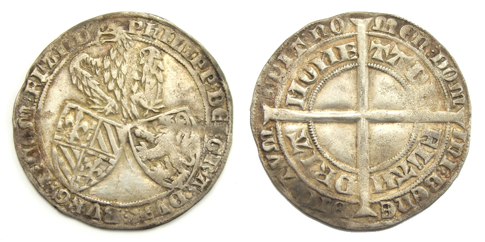 Flanders, Gent. Double groat, type Jangelaar, stuck under Philip the Bold (1384-1404)